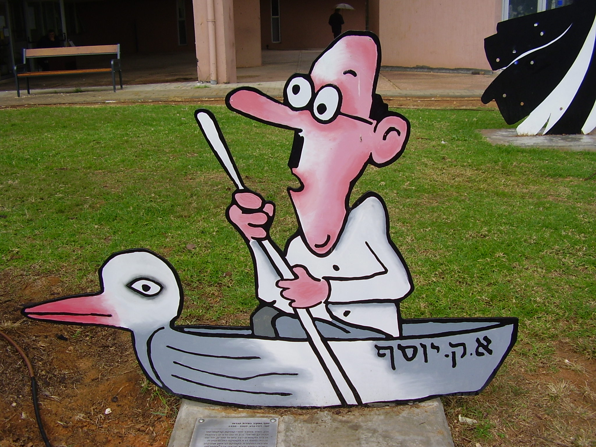 Israeli Cartoon Museum in Holon